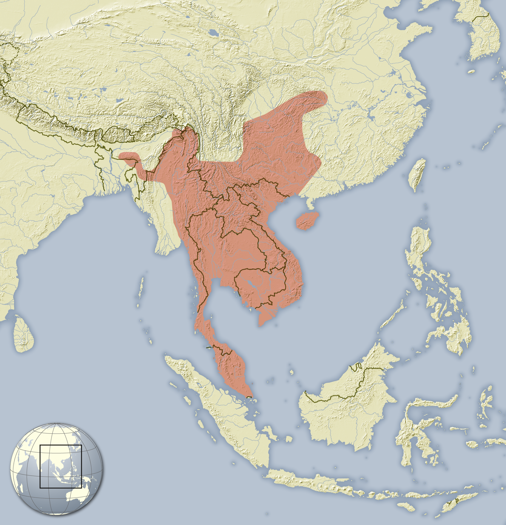 Distribution map of the Asiatic brush-tailed porcupine